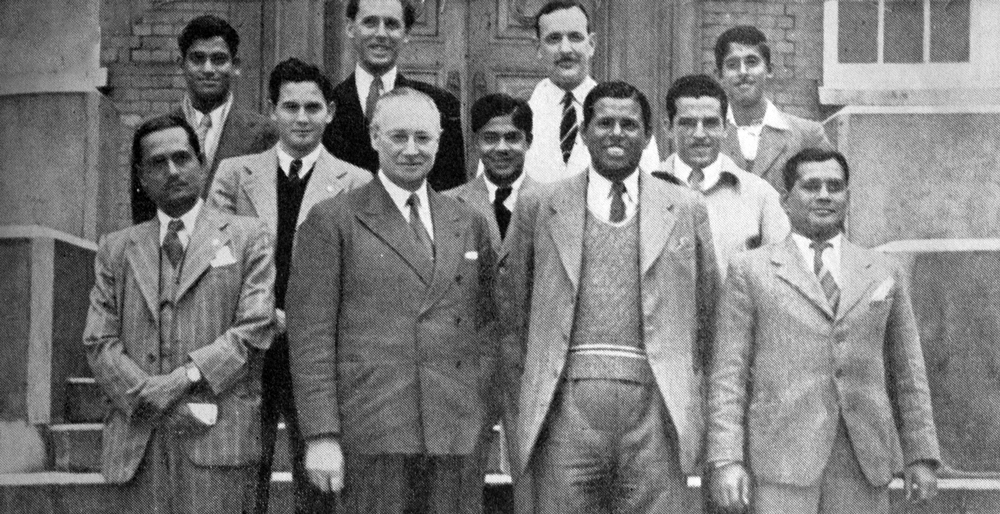 JK Seal with Indian boxing team in London, 1948 Olympics